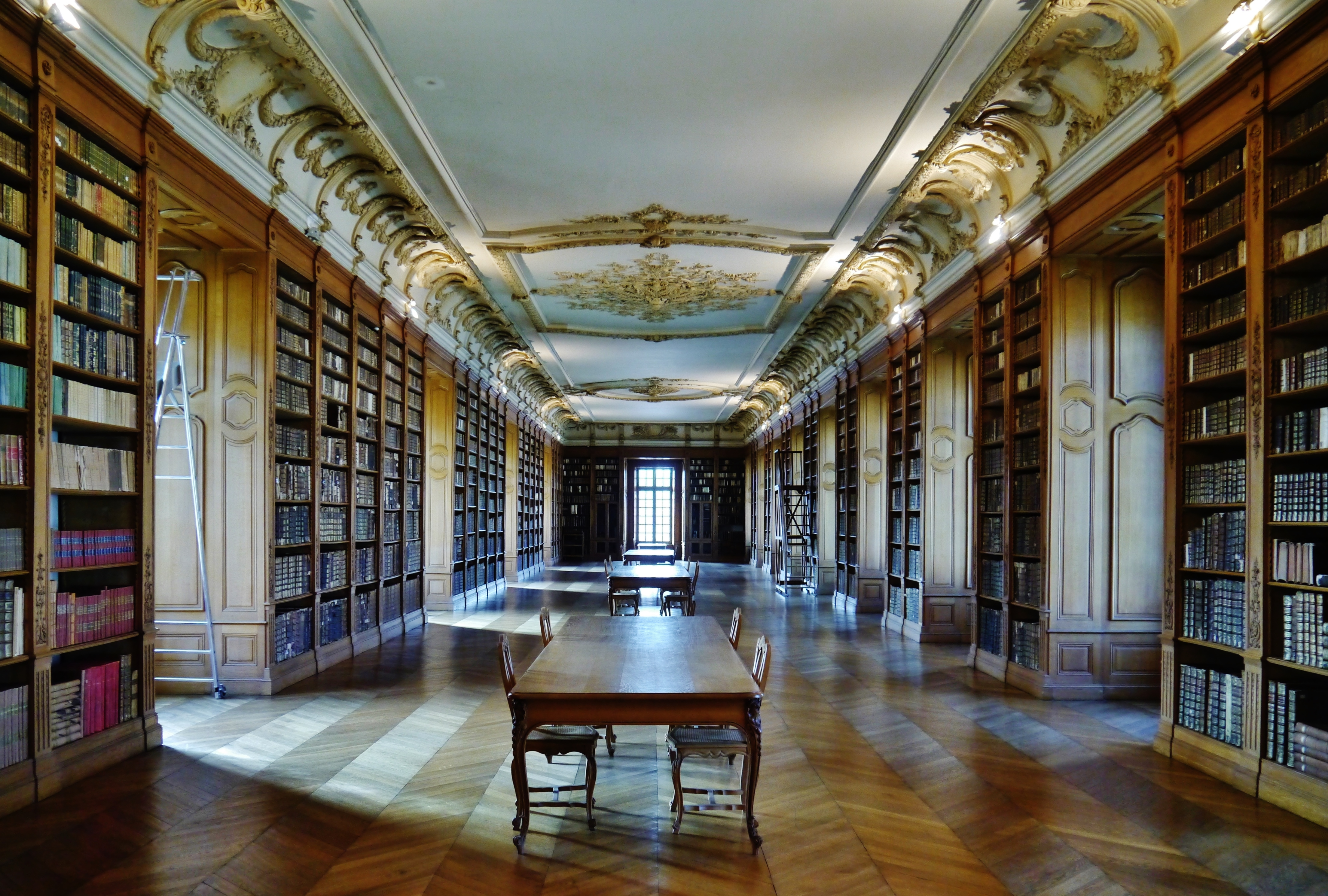 Monastery Library, Saint-Mihiel, Département of Meuse, Region of Lorraine (now Grand East), France